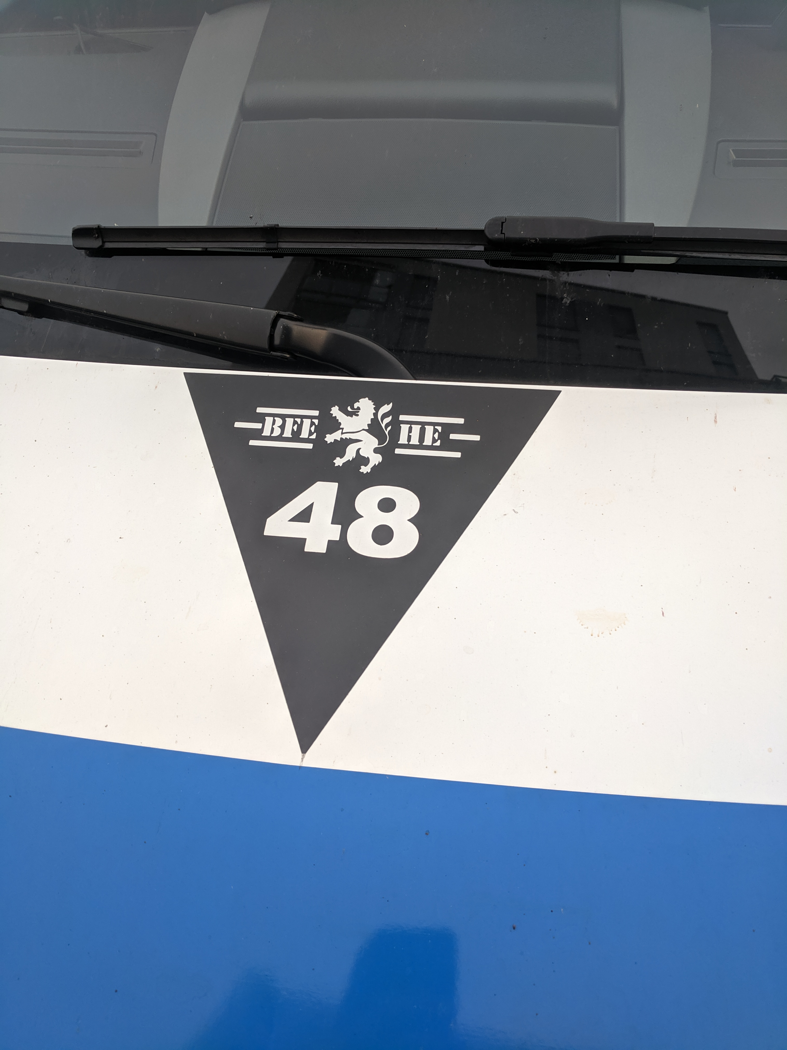 Batch on a german police car.